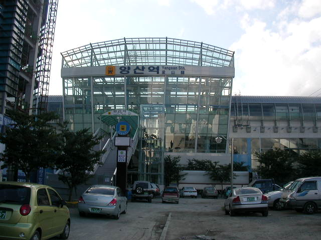 Yangsan Station on Line 2 of the Busan Subway